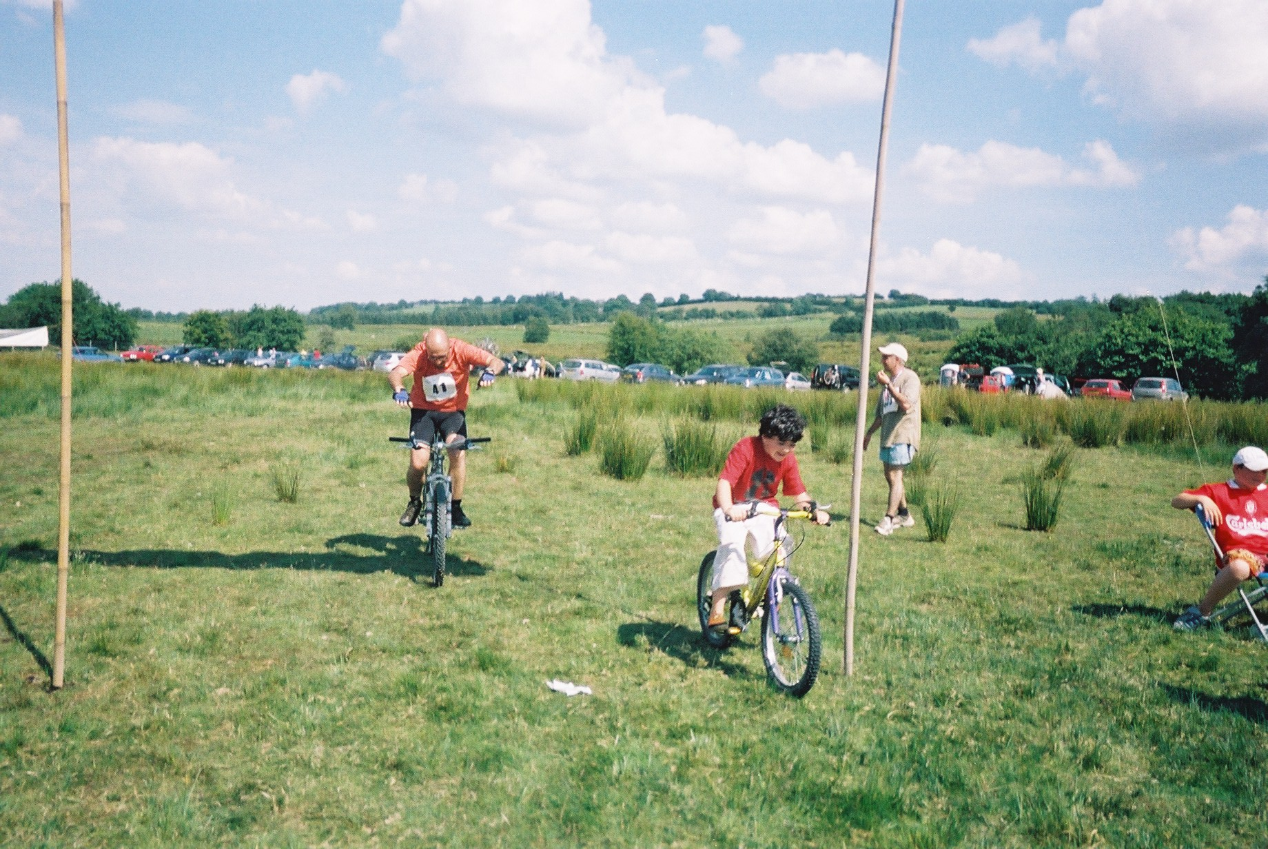 A photo of the World Bog Snorkelling Championships photo taken by me - Russell Layberry - of Jon Atkinson being overtaken by a small child